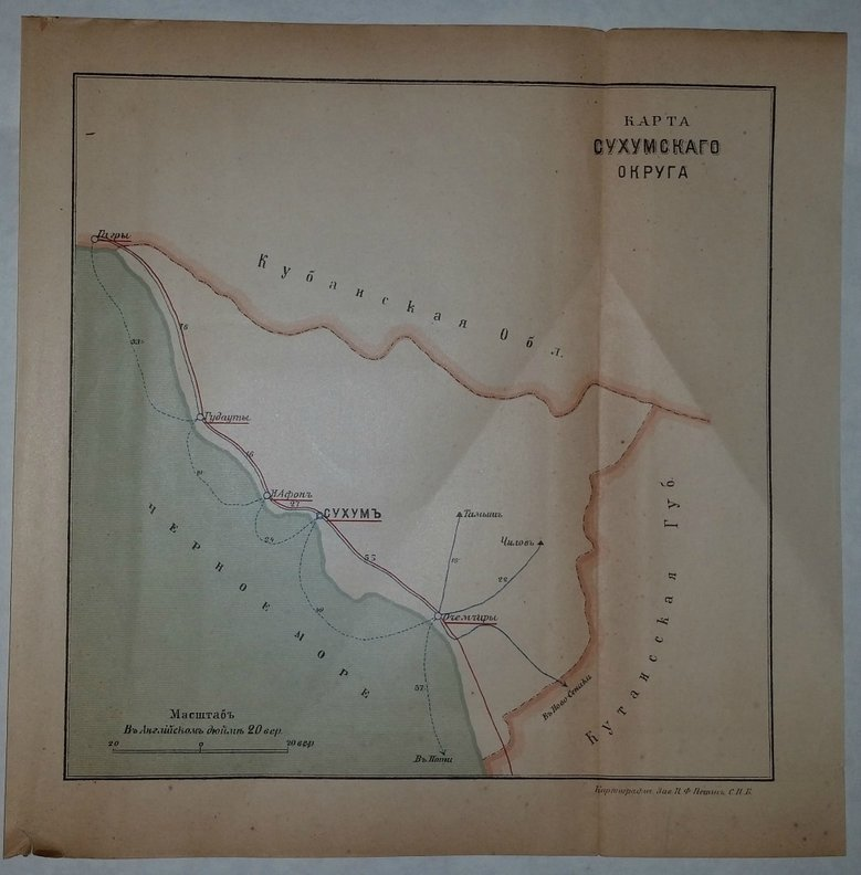 Sukhum Okrug map